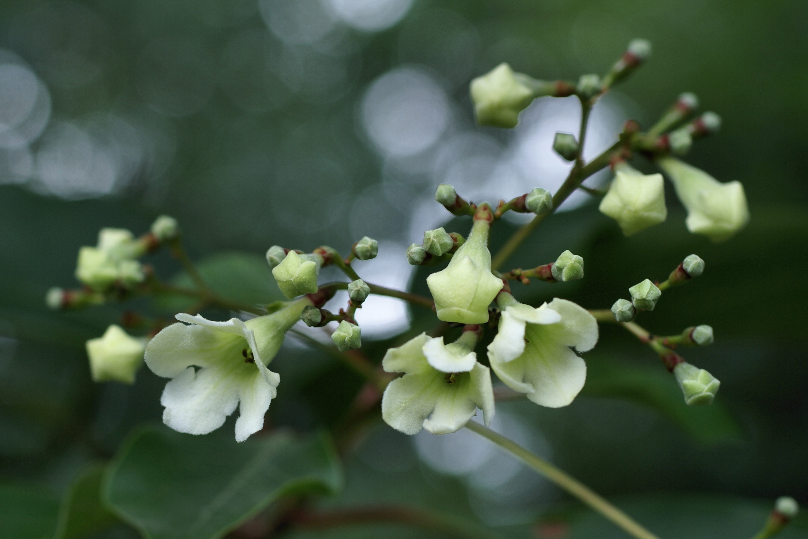 Inflorescence at the Arboretum of Kalmthout, Belgium. This tree flowers only once every 20 to 25 years. This was the fourth flowering specimen in Europe ever at that time (2006).